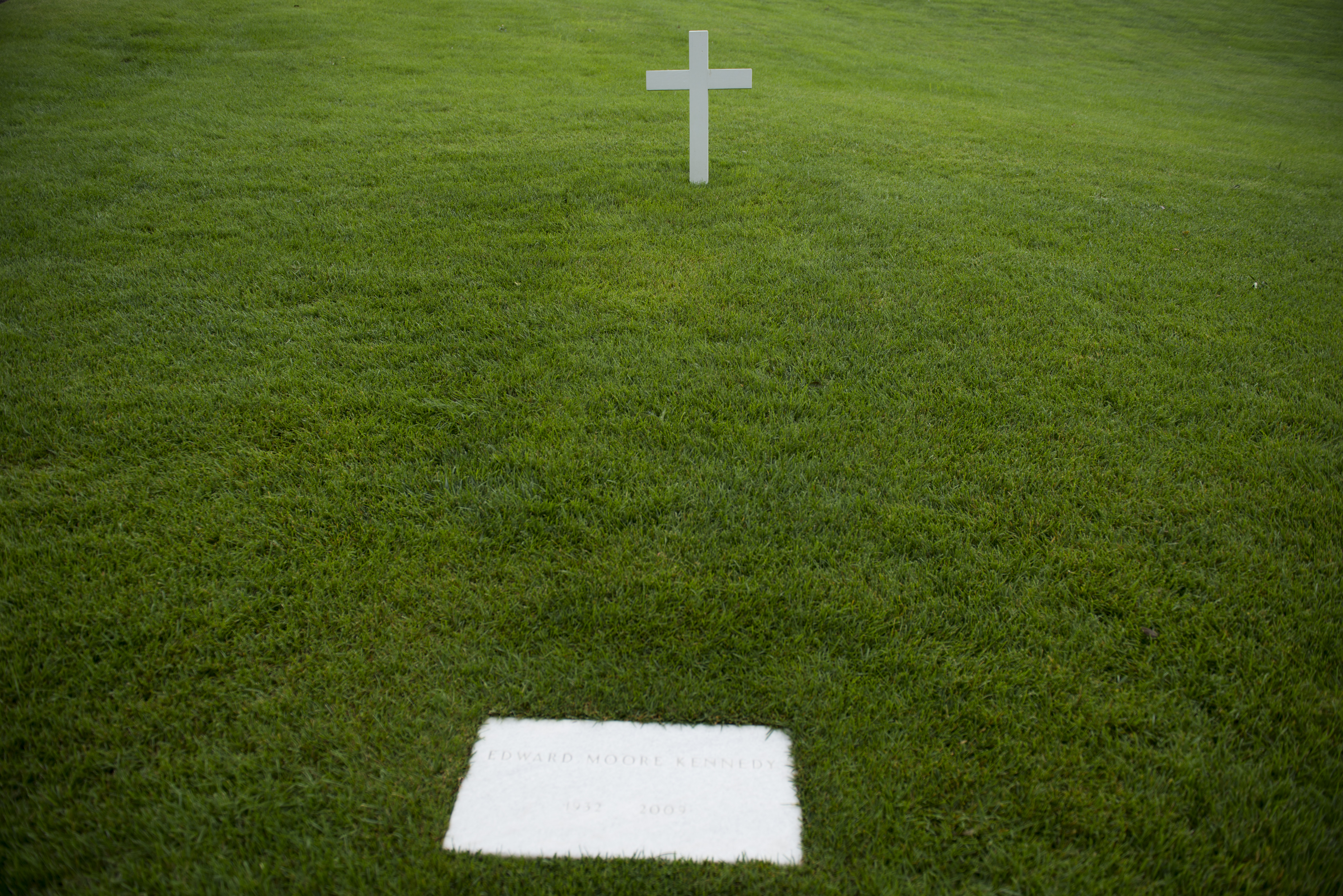 Senator Edward M. Kennedy, buried in Section 45, grave S-45-B of Arlington National Cemetery, died on Aug. 25, 2009, after a long fight against brain cancer. Senator Kennedy had represented the State of Massachusetts in the U.S. Senate for 43 years. (U.S Army photo by Rachel Larue/released)